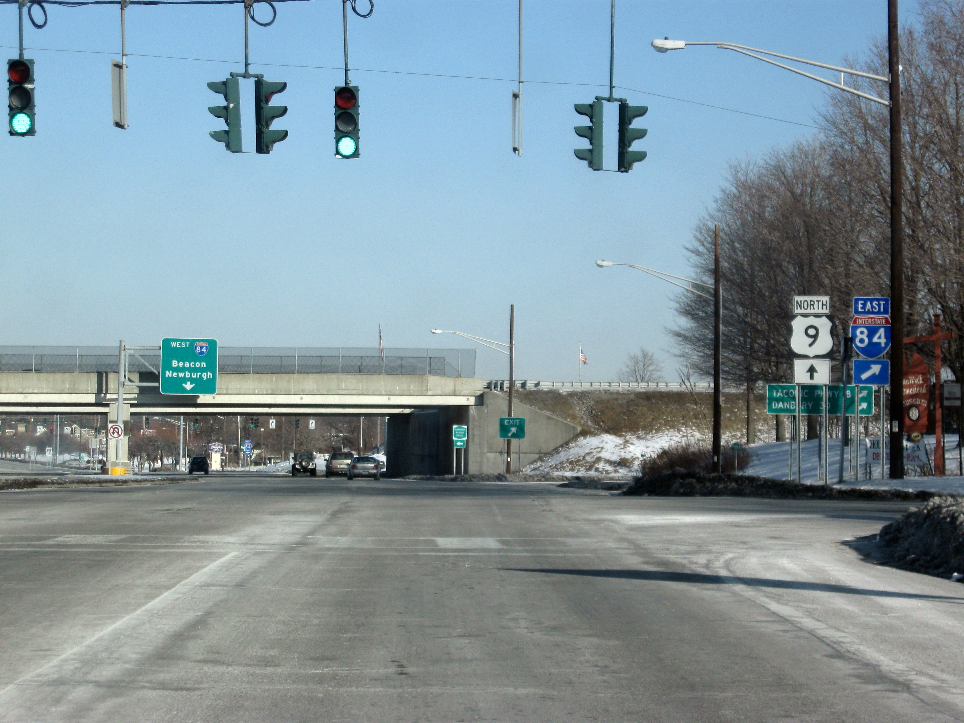 Northbound US Route 9 at the interchange of Interstate 84, and the intersection of Snook Road in Fishkill.